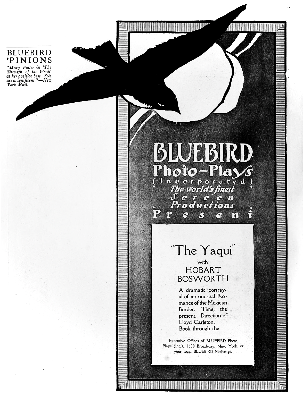 Moving Picture World (Jan-Mar 1916) Movie Ad